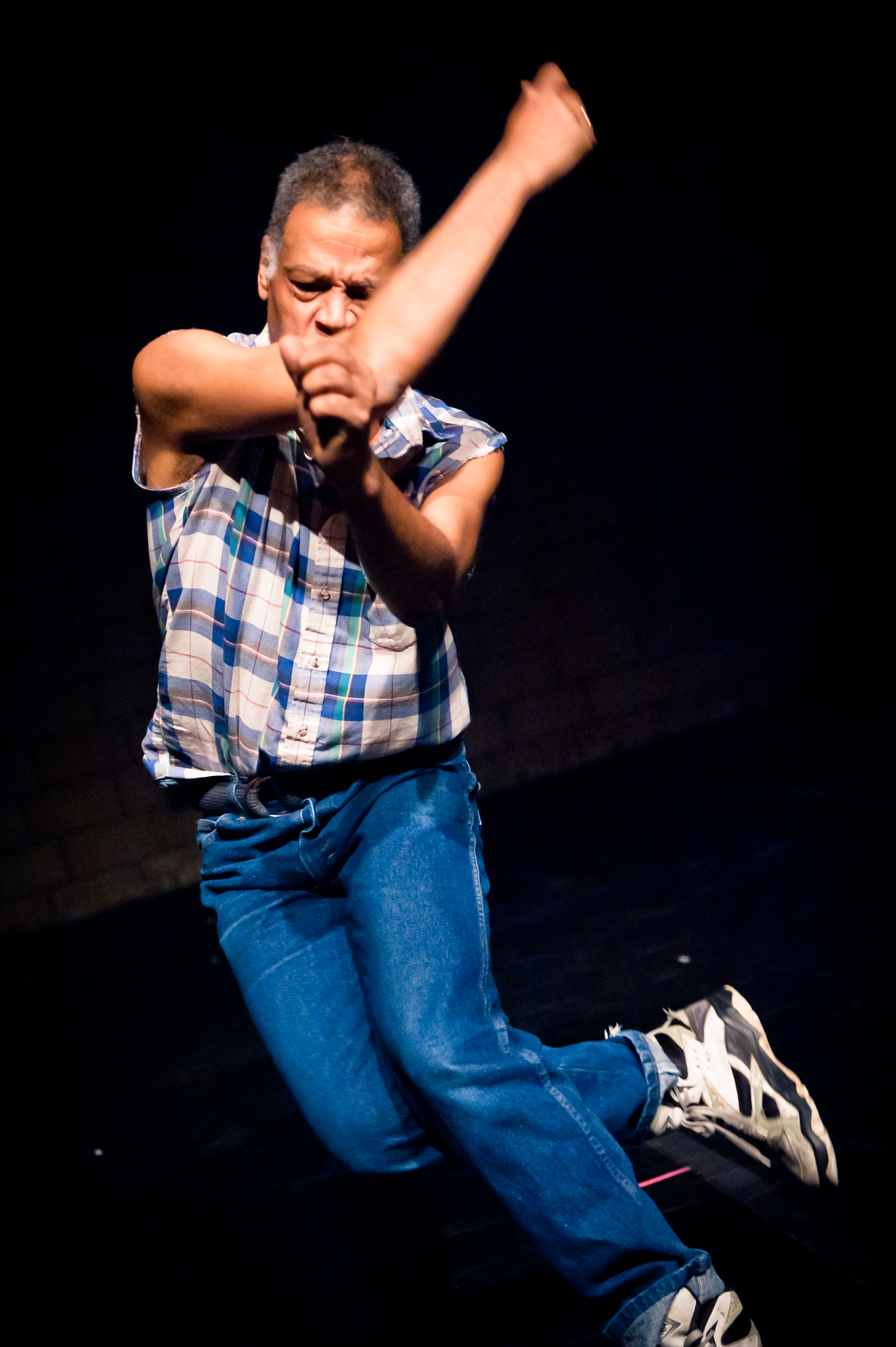 Ishmael Houston-Jones, THEM, at American Realness 2011. photo: Ian Douglas